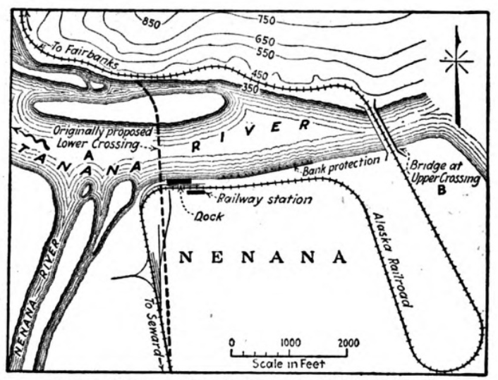 Fig. 2 - Alternative Locations for Tanana River Bridge (Mears Memorial Bridge)